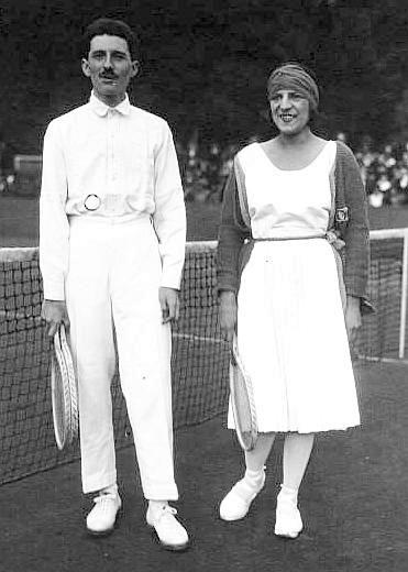 French tennis players Jacques Brugnon and Suzanne Lenglen at the Racing Club de France (Croix-Catelan) in 1921.